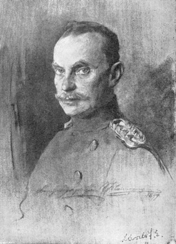 Bernhard III., Duke of Saxe-Meiningen